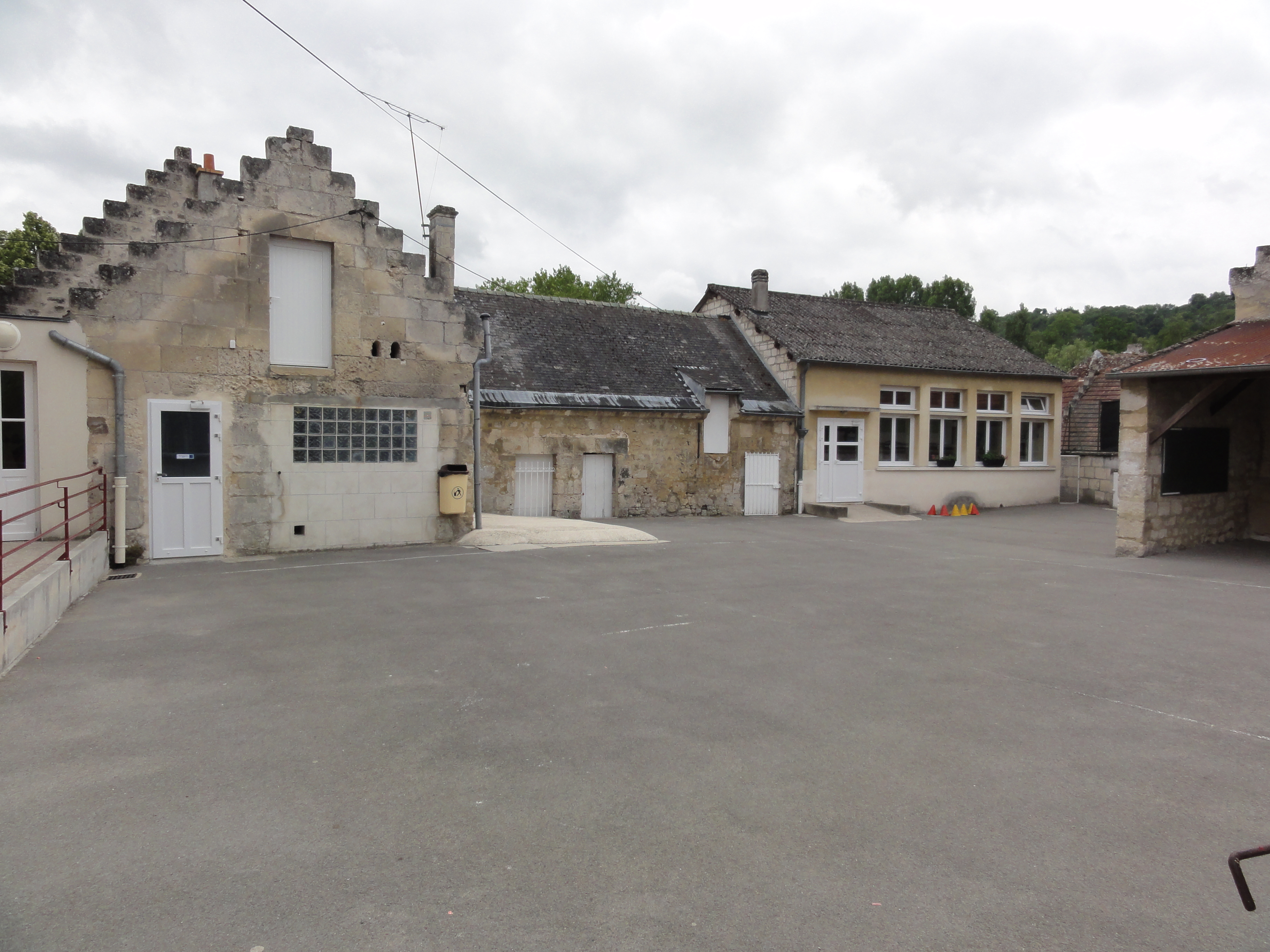 Vasseny (Aisne) école